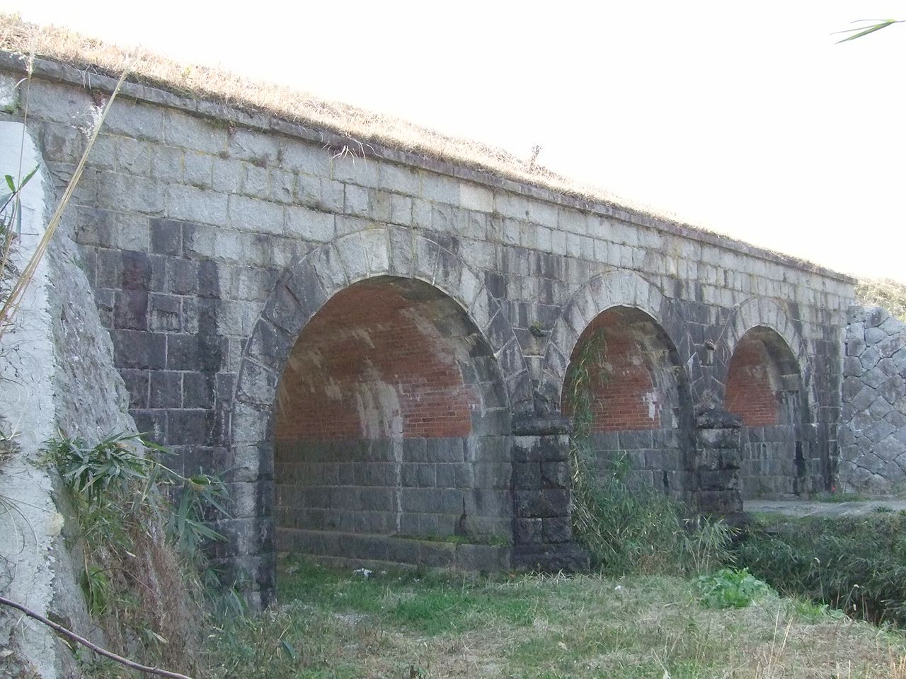 Heisei Chikuhō Railway Tagawa Line Uchida River Bridge(upper side). Between Aka Station and Uchida Station, Aka Village, Fukuoka, Japan.